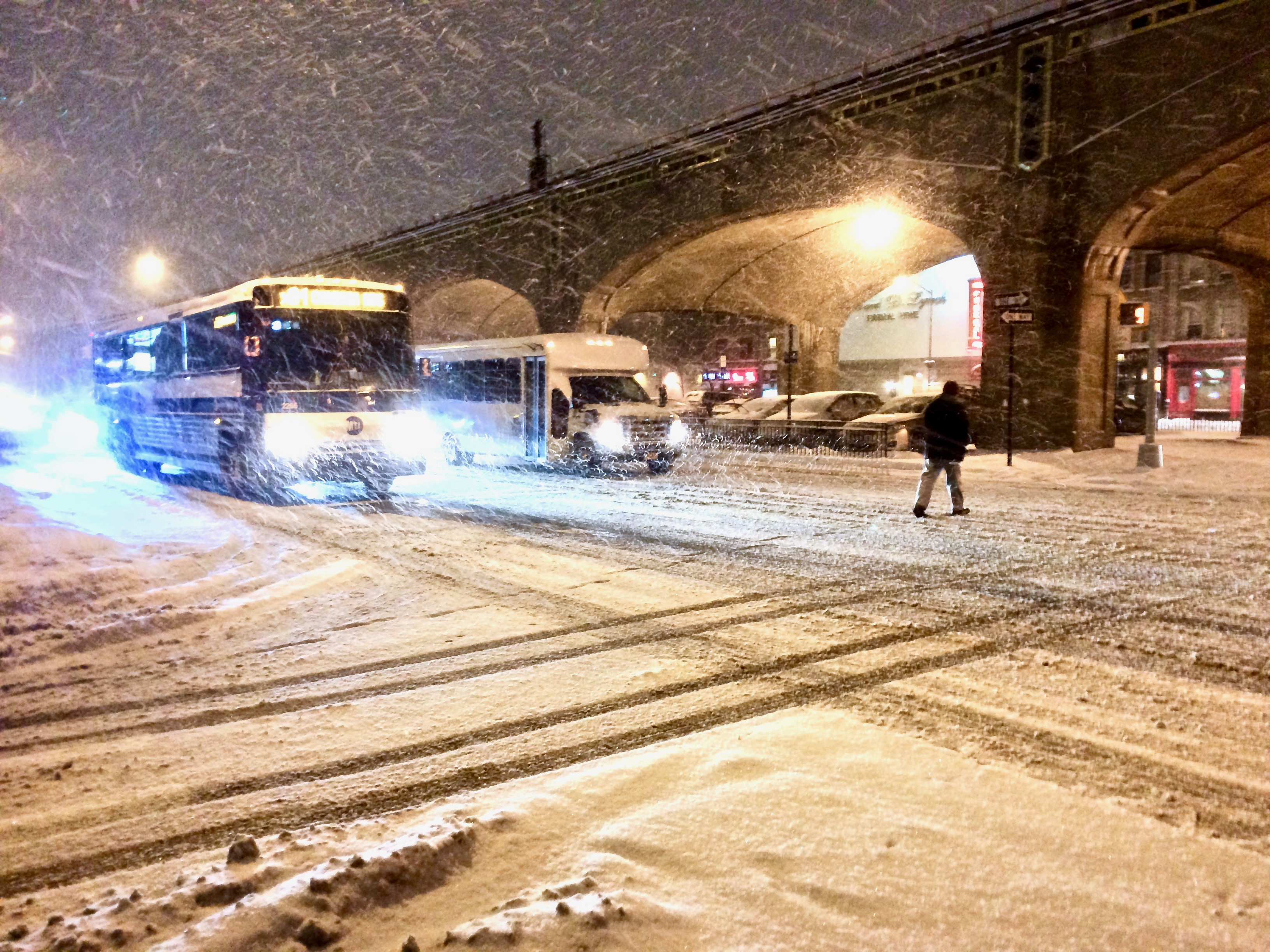 Heavy snowfall early in the evening of January 21, 2014 in Sunnyside, Queens, New York City.